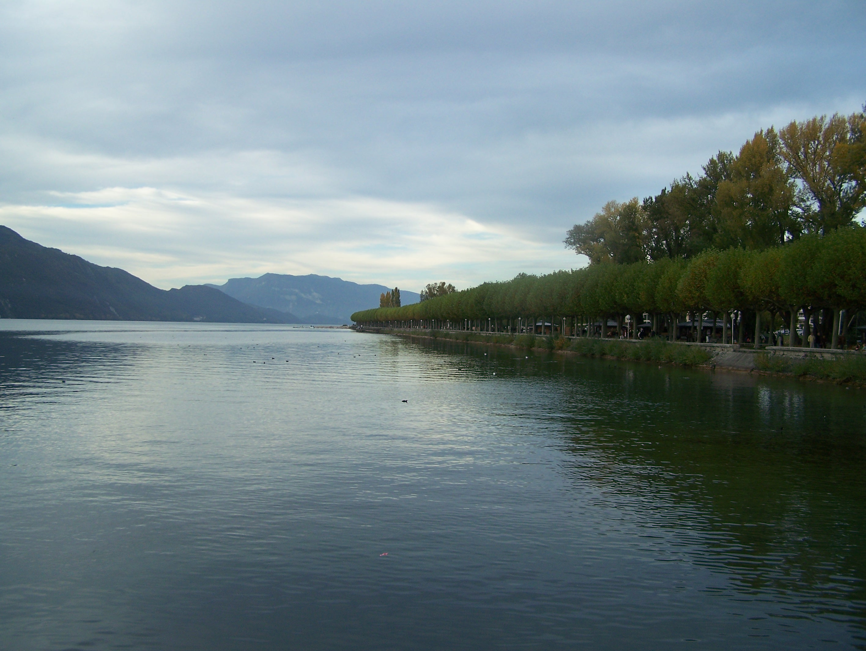 The Bourget Lake (France) seen from Aix-les-Bains on 10/25/06. Personal photo.